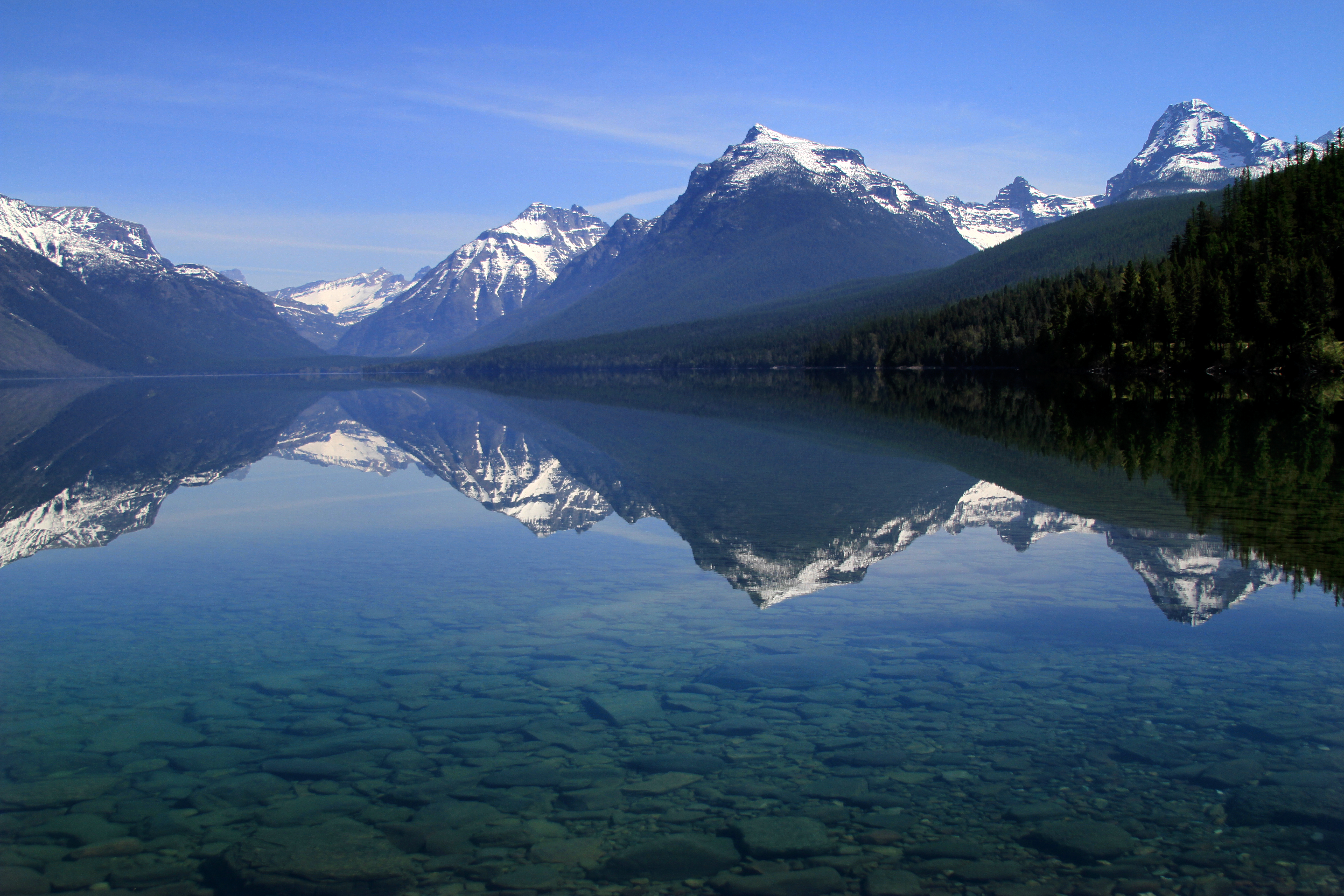 Calm reflection on Lake McDonald in Glacier National Park. Photo: David Restivo, NPS